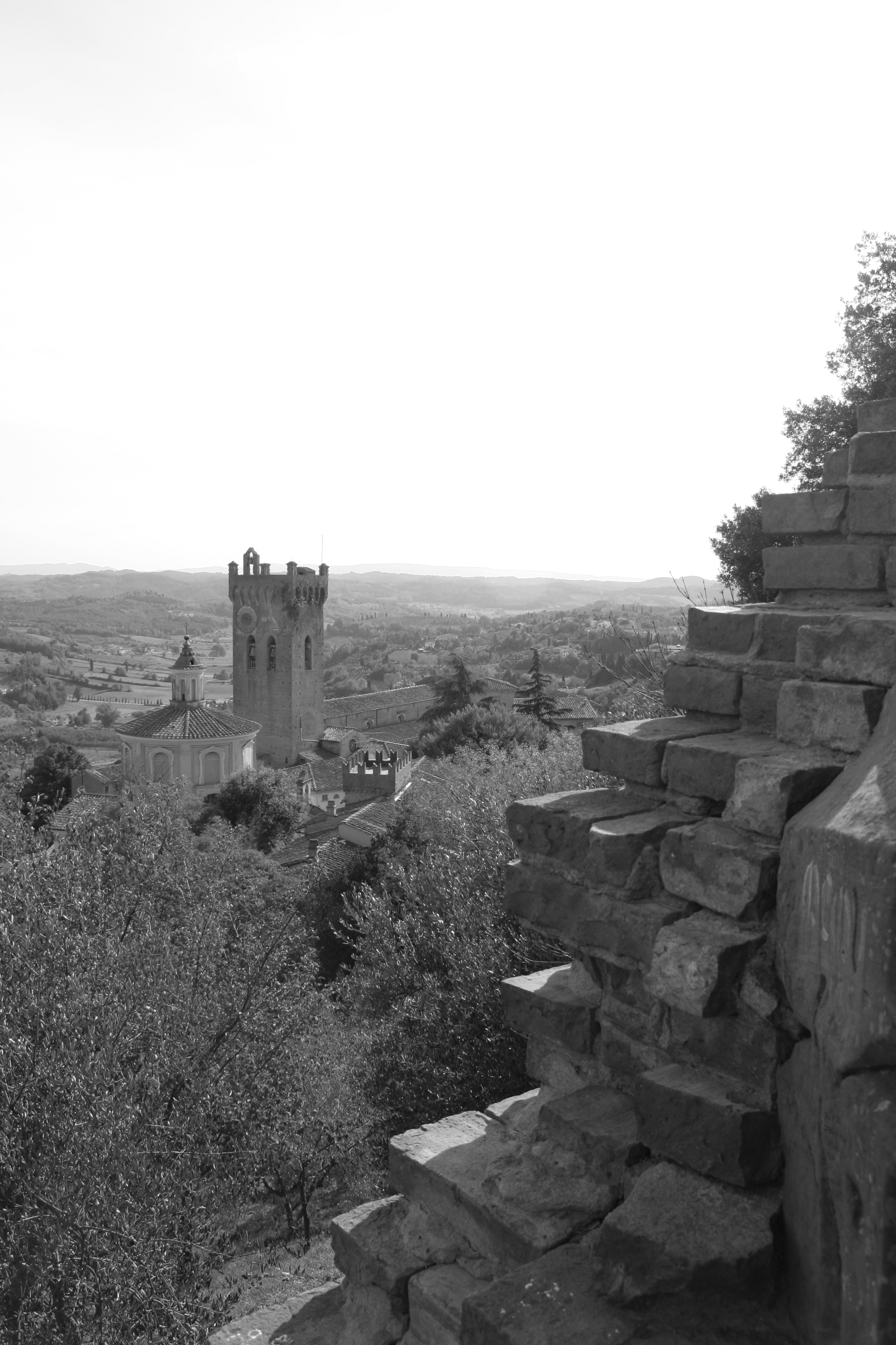 Campanile ("Torre di Matilde") of the Cathedral and cupola of the Church of Santissimo Crocifisso, San Miniato